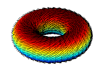 Combing a hairy doughnut flat. (I, anonymous author of this work, claim no author's rights.)